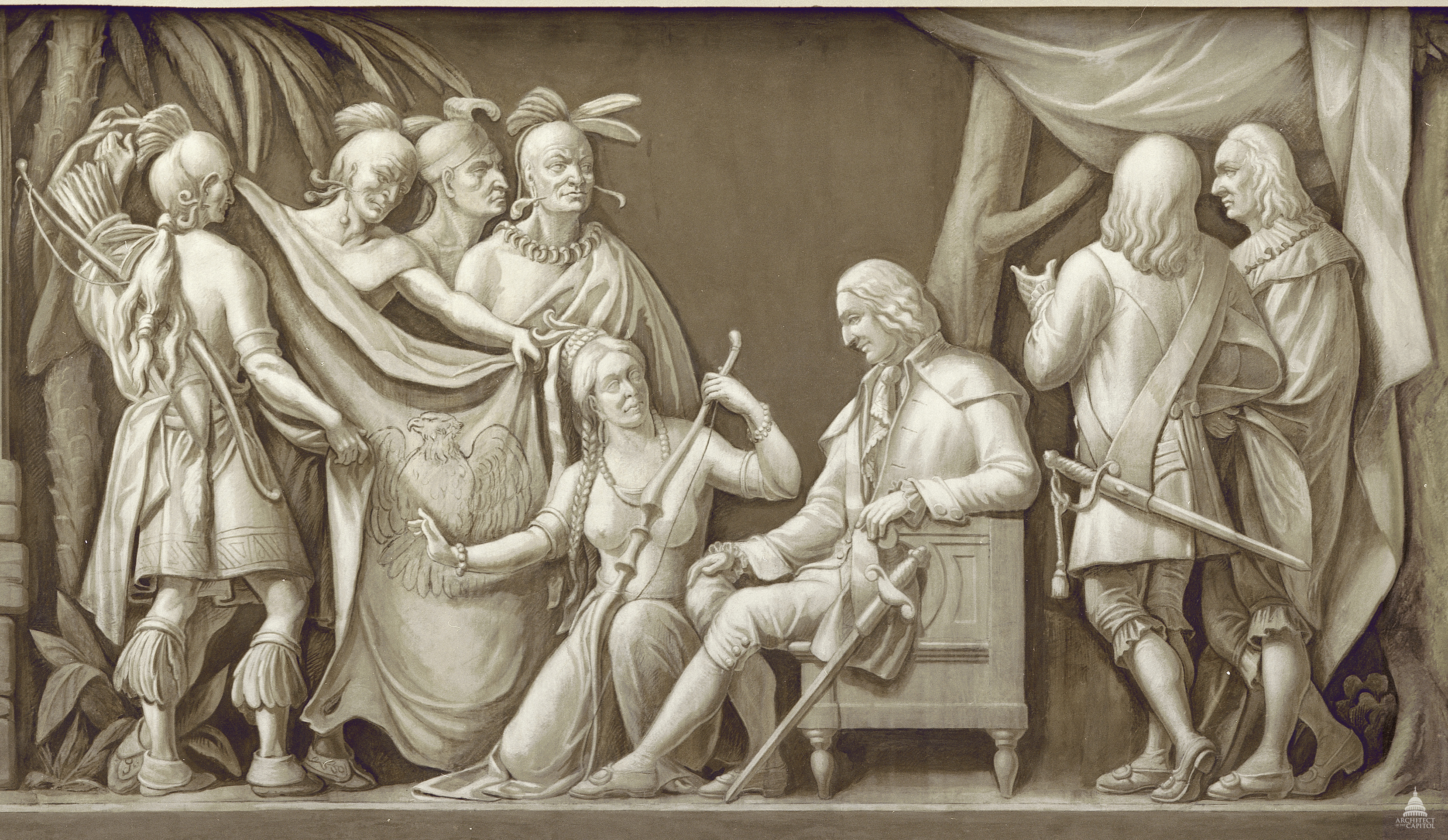 James Oglethorpe, who founded the colony of Georgia and became its first governor, is shown in 1732 making peace on the site of Savannah with the chief of the Muskogee Indians, who presents a buffalo skin decorated with an eagle, symbol of love and protection. This official Architect of the Capitol photograph is being made available for educational, scholarly, news or personal purposes (not advertising or any other commercial use). When any of these images is used the photographic credit line should read “Architect of the Capitol.” These images may not be used in any way that would imply endorsement by the Architect of the Capitol or the United States Congress of a product, service or point of view. For more information visit